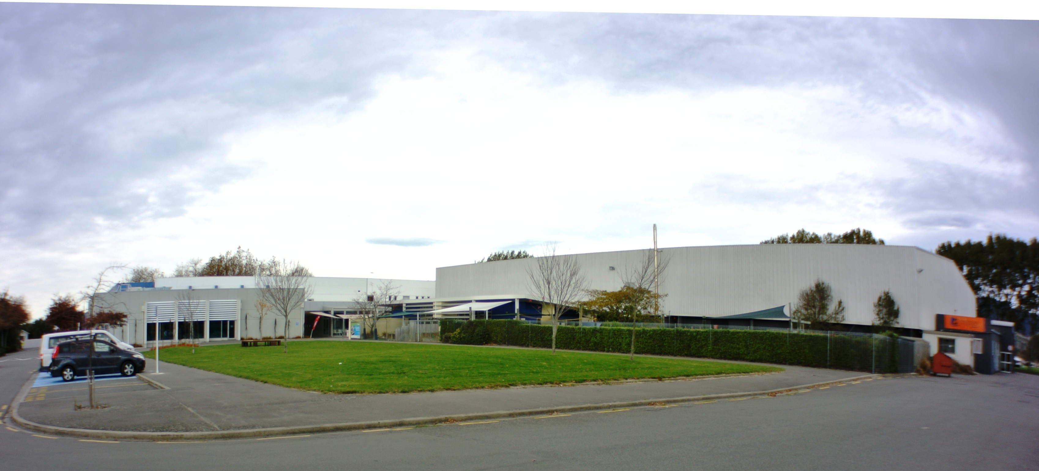 Recreation and Sport Centre in Christchurch, New Zealand